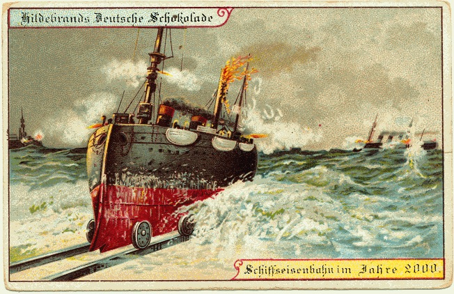 Germany in 2000 year (XXI century). Railway war boat. Germany, Hildebrand Factory chocolade.